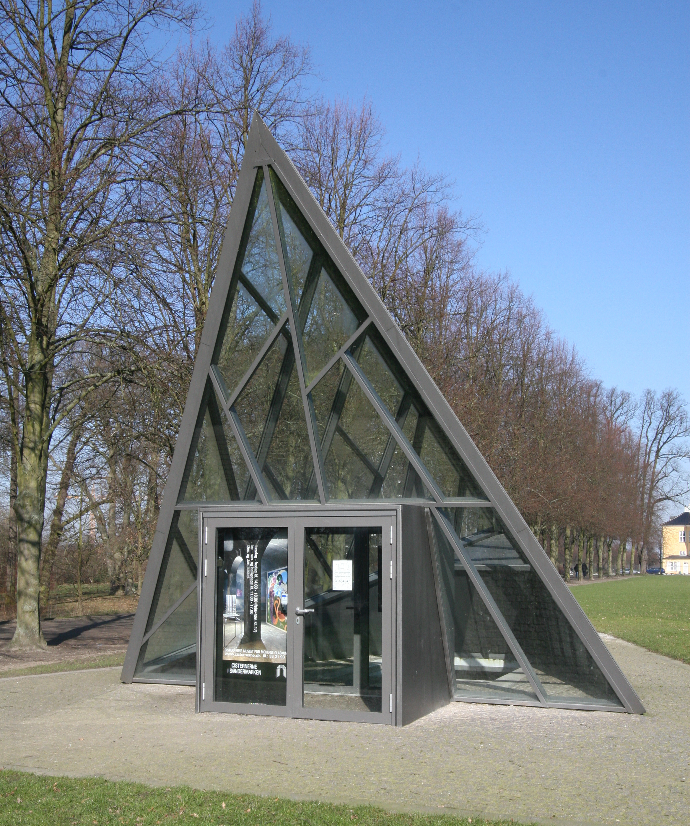 Entrance to the underground Museum of Modern Glass Art , Cisternerne.